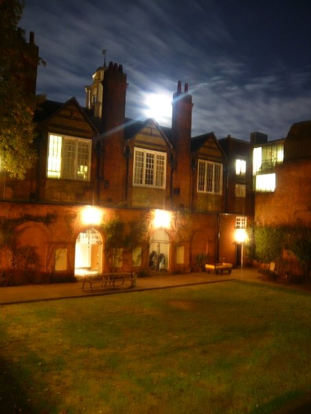 Chavasse Building at Night